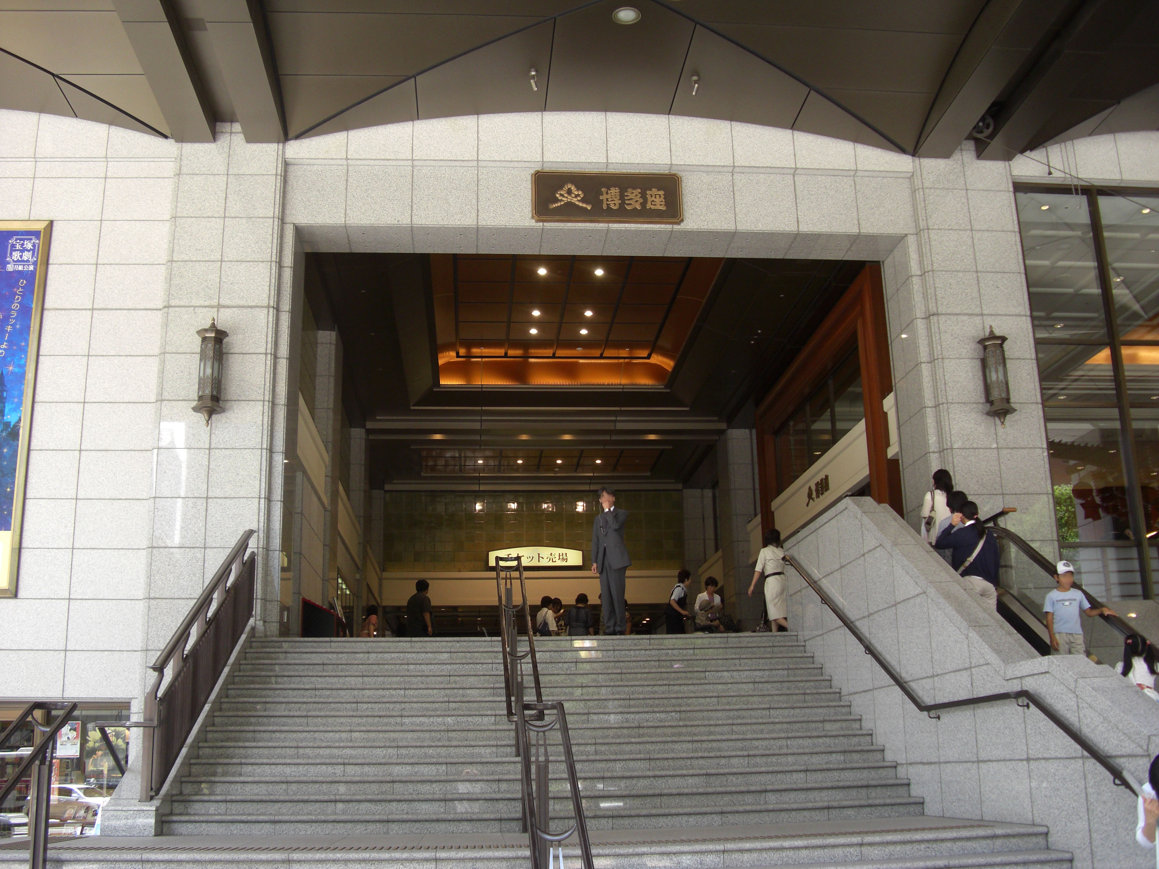 Hakataza,Shimokawabata-machi Hakata-ku Fukuoka-City JAPAN.